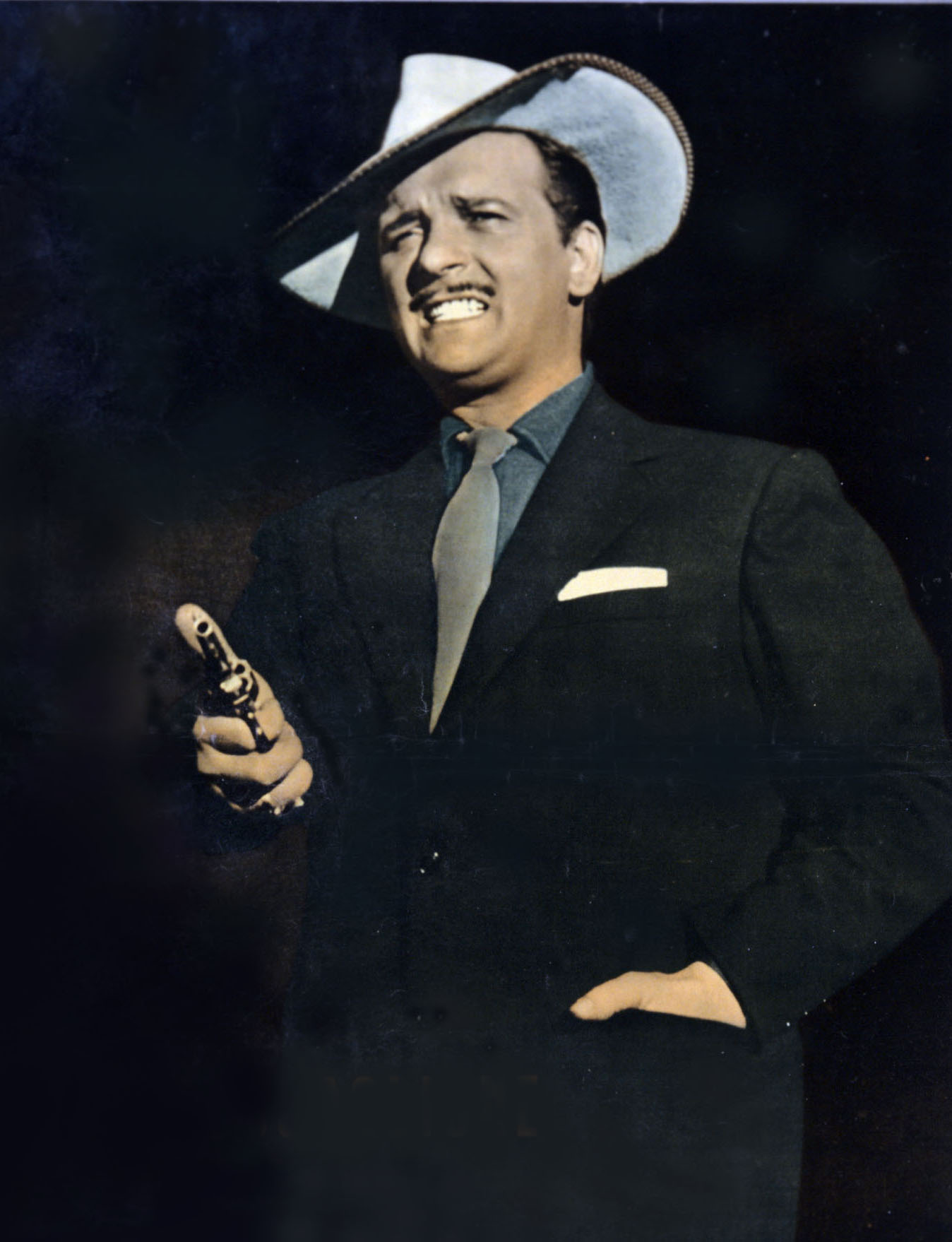 Screenshot from the film I ladri (1959)